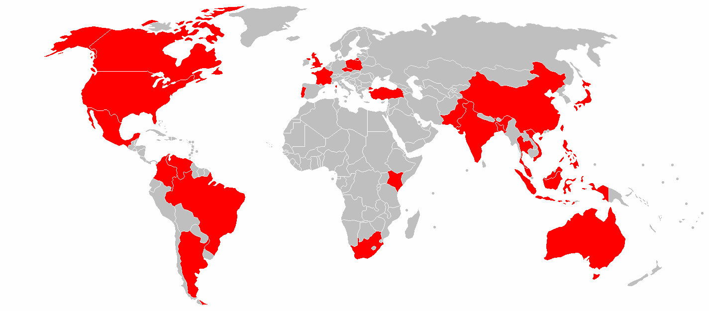 World locations of Toyota factories